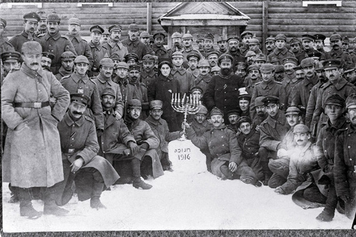 German Jewish soldiers hold a Hanukkah celebration. Poland, 1916